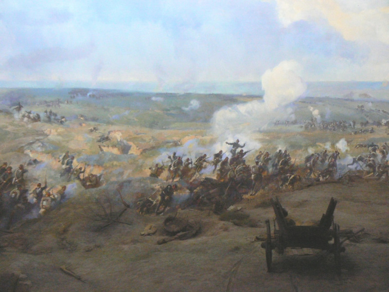 Photo from the Panorama "Pleven epopee 1877", Pleven, Bulgaria